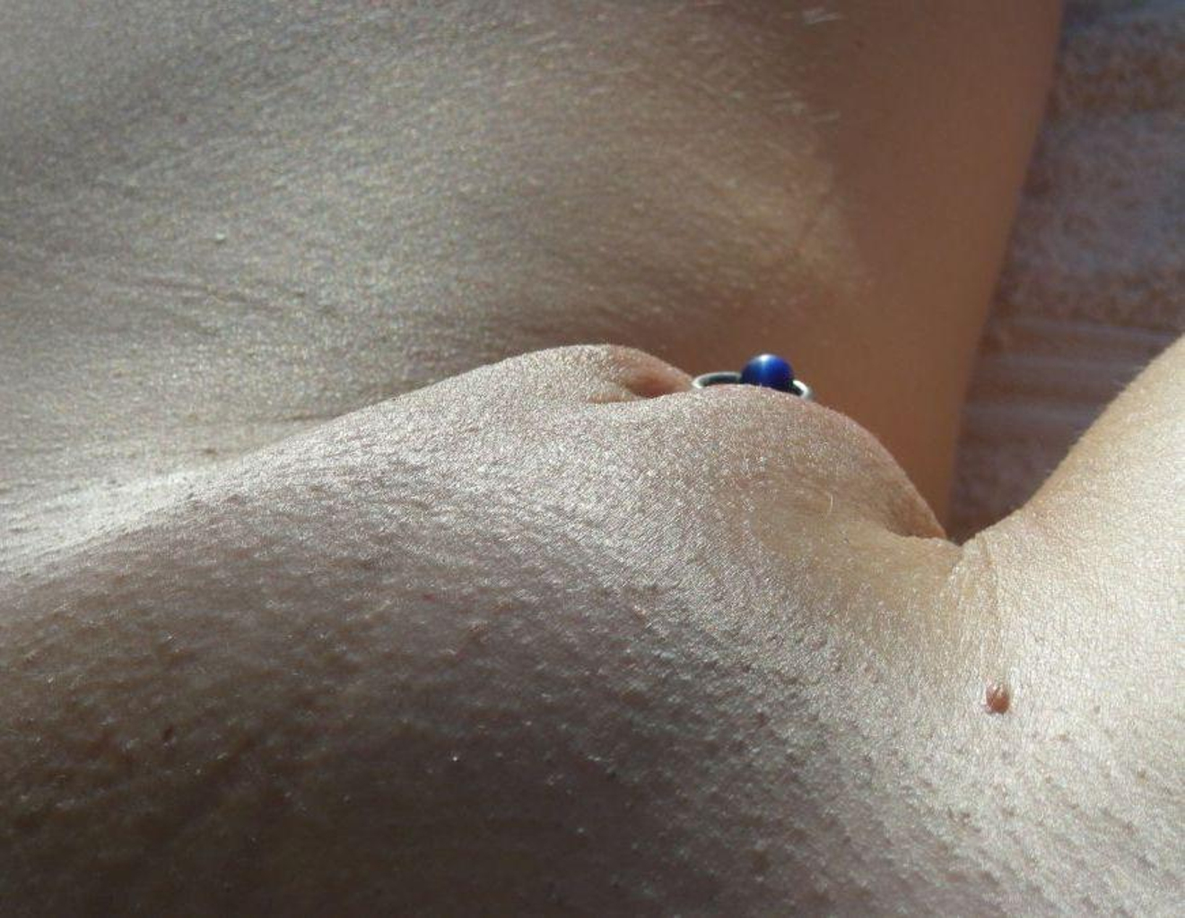 my hoody in the sunshine